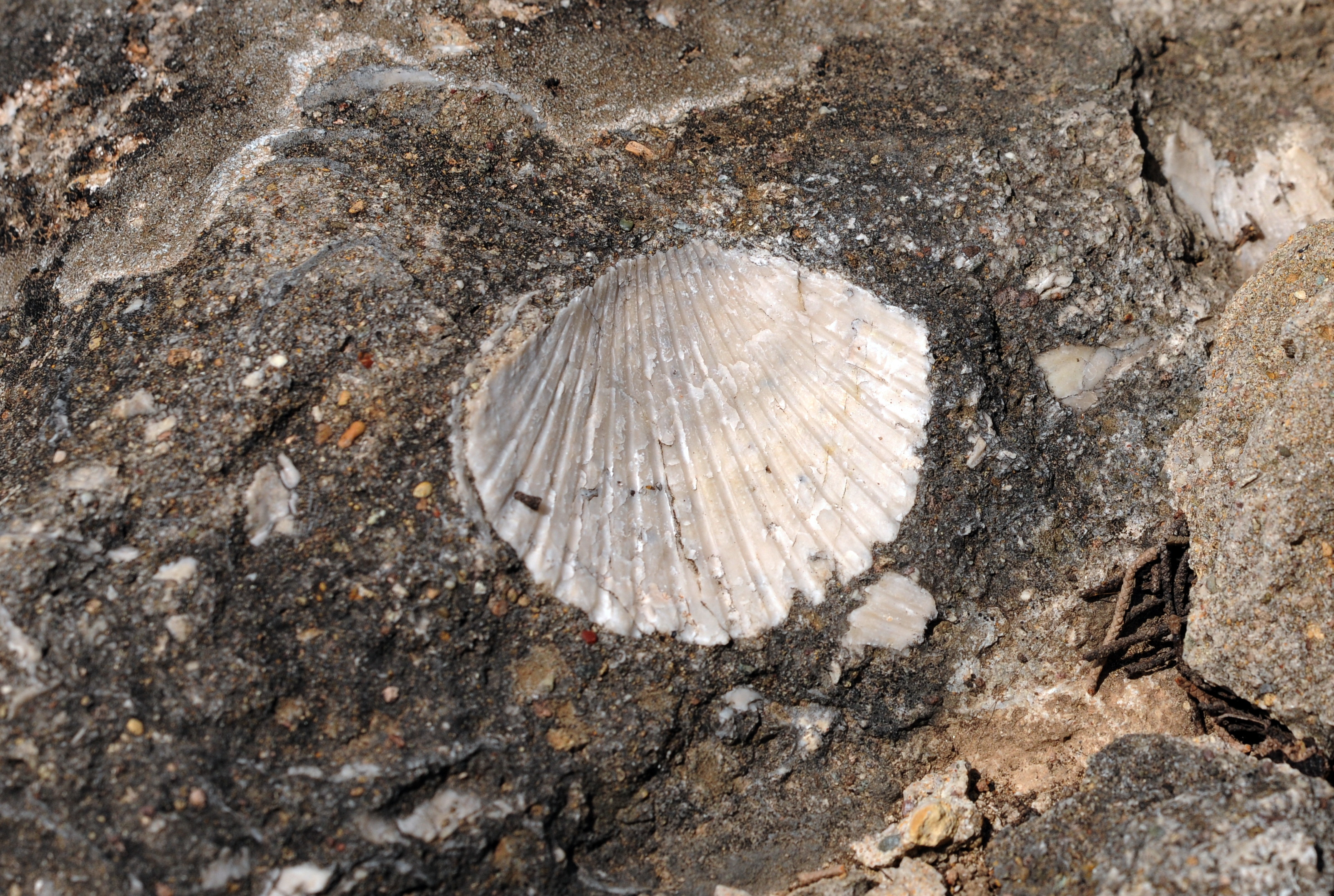 A fossil scallop photographed at 650 m altitude in skirts of Taurus Mts. Canyon Kayaci, Mersin - Turkey.